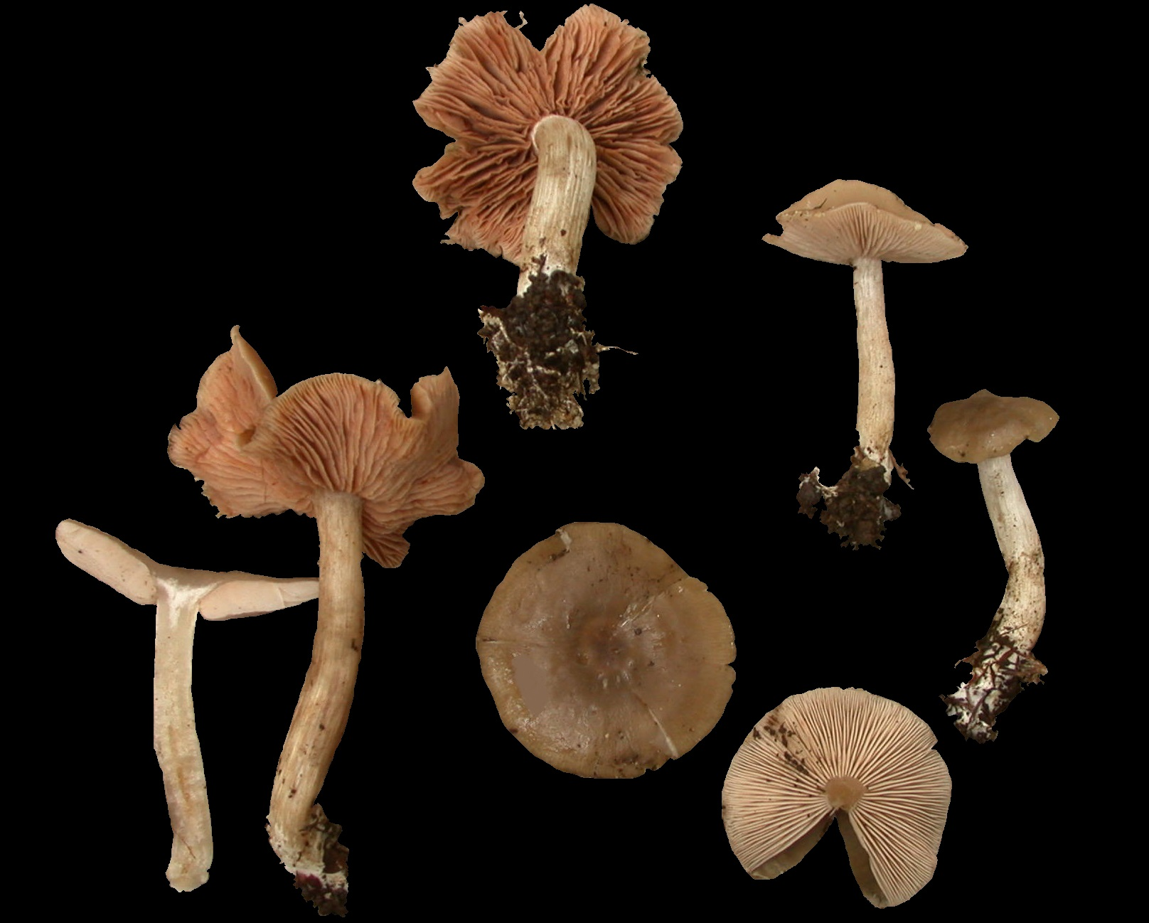 Lamellae are almost white in youth, but becoming to deep brownish pink at maturity.